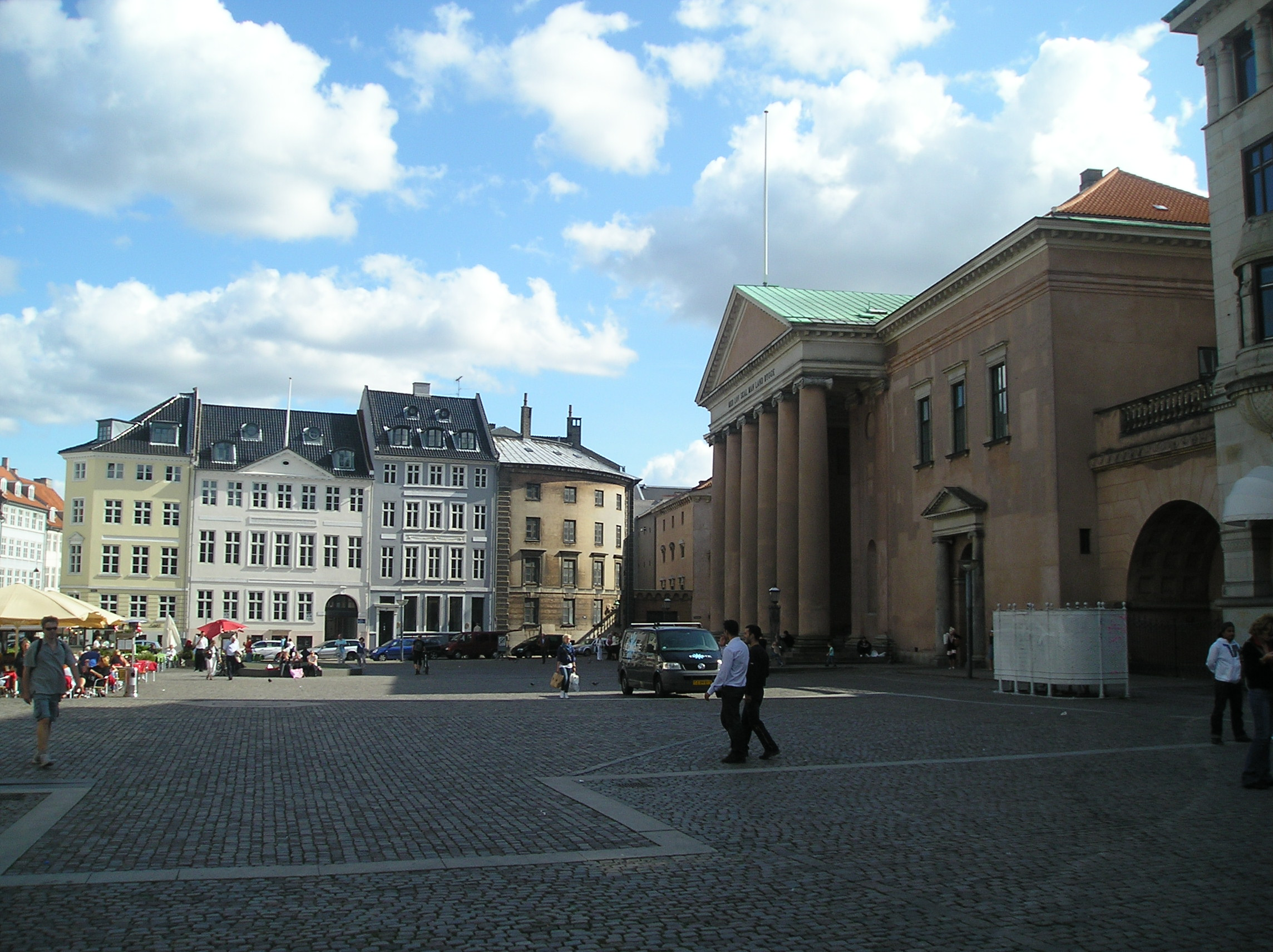 The square Nytorv in Copenhagen. The building on the right, names Domhuset, house Københavns Byret (Copenhagen Town Court).